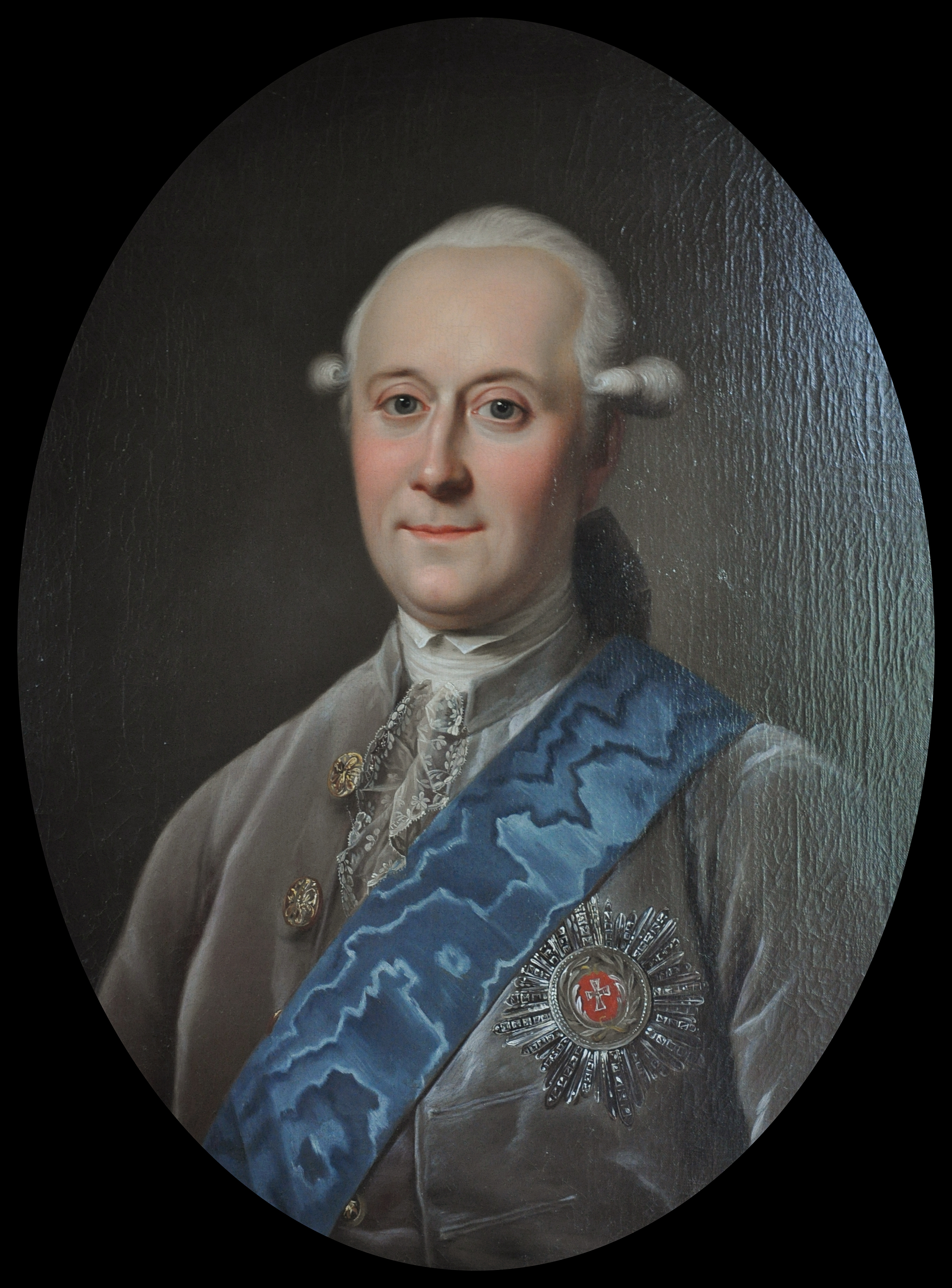 Count Andreas Peter Bernstorff, Prime minister and reformer